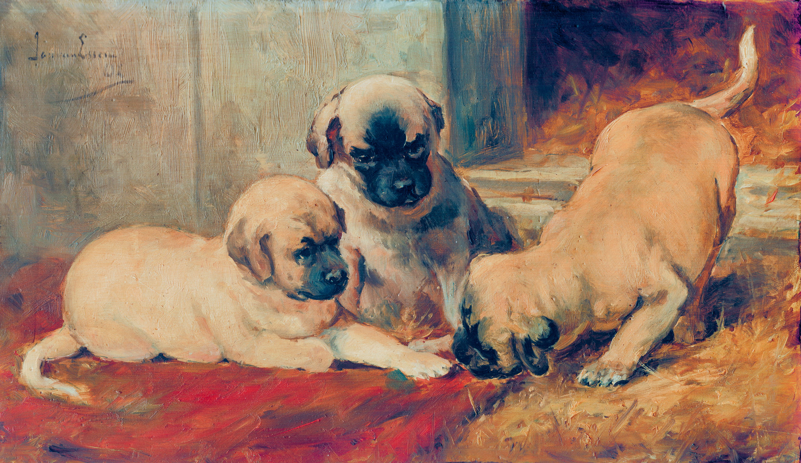 Playing Mastiff puppies by Johannes (Jan) Cornelis van Essen